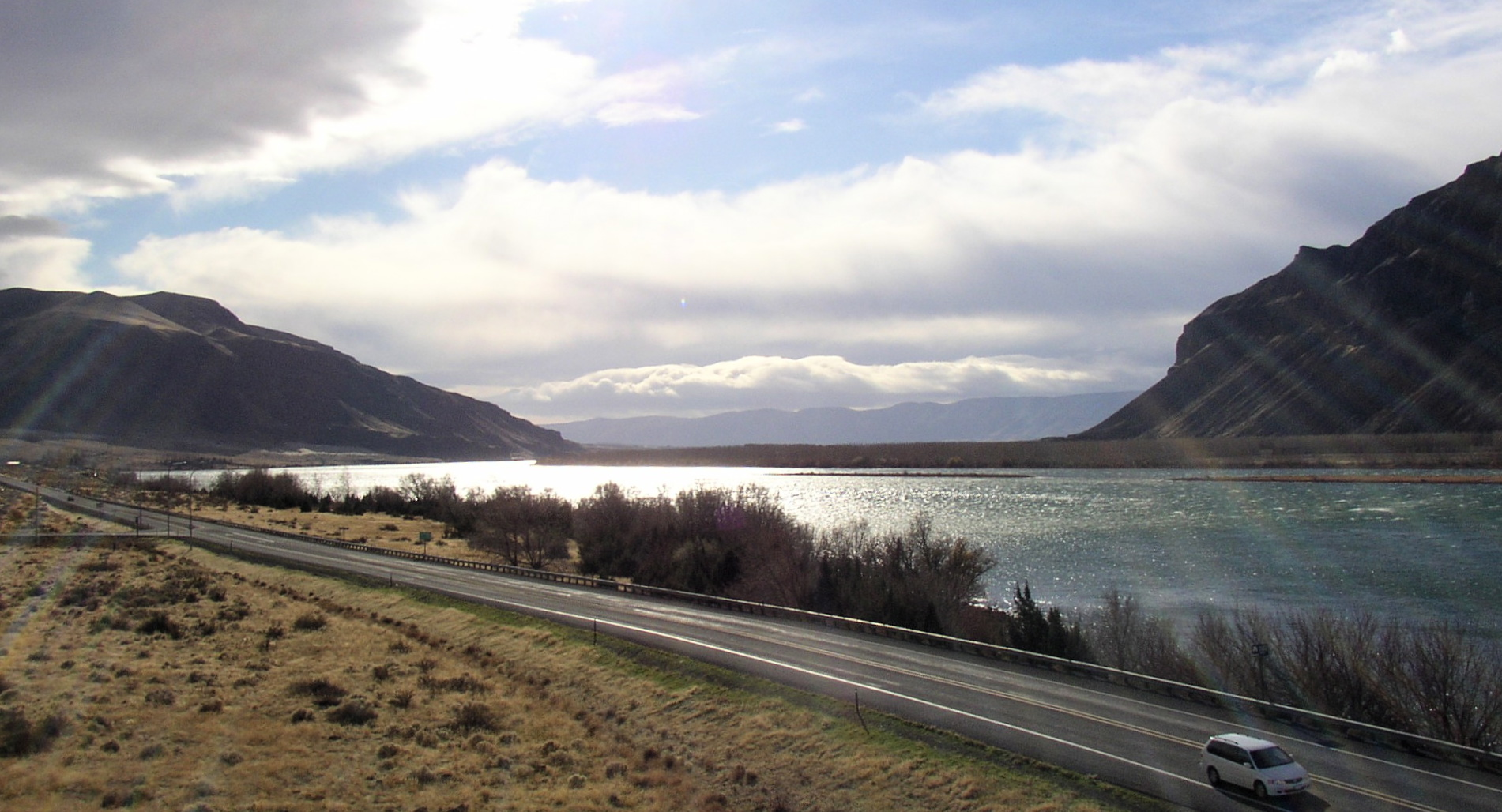 Sentinel Gap in the Saddle Mountains on the Columbia River in Washington State. Taken in November 2006 by uploader. All rights released. Williamborg 00:12, 26 November 2006 (UTC)